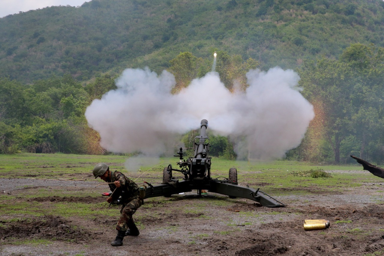 LG1, 105mm, howitzer towed, extended range